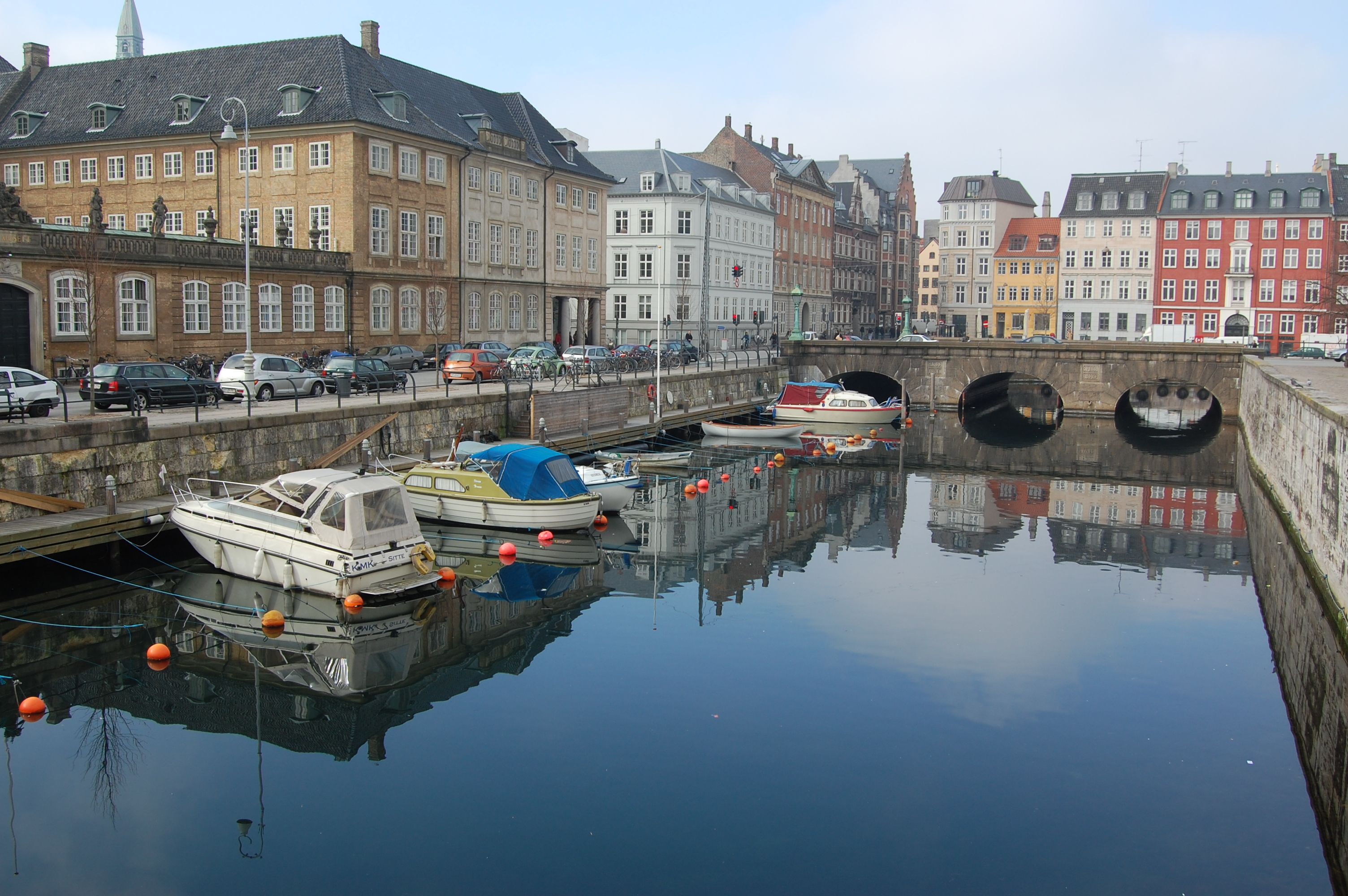 The bridge Stormbroen and part of the Prince's Mansion in Copenhagen, Denmark